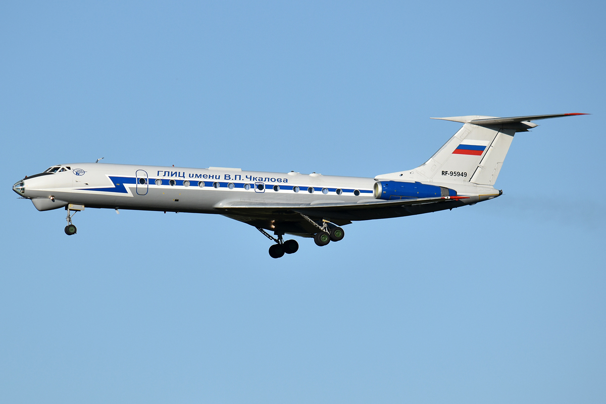 Russian Air Force, RF-95949, Tupolev Tu-134SH